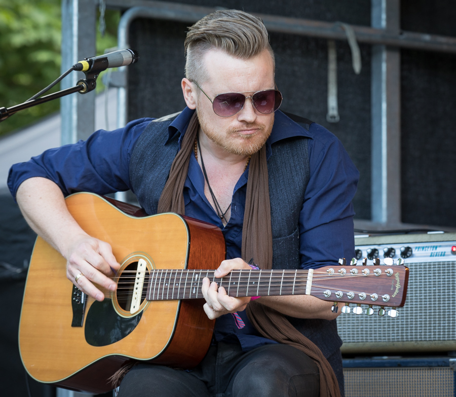 Amund Maarud with Kristian Torgalsen at the minor stage in the Vigeland Park. The concert was part of Piknik i Parken and took place on 24. June 2017 in Oslo. Lineup: Kristian Torgalsen (guitar / vocal) Amund Maarud (guitar) Christer Knutsen (piano)